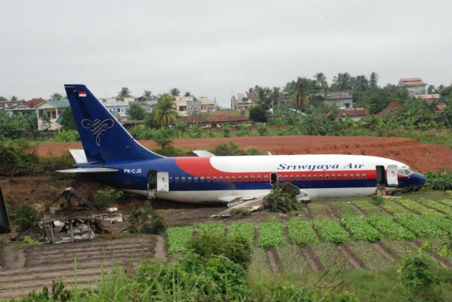 The wreckage of Sriwijaya Air Flight 62 after a crash in Jambi which killed a farmer